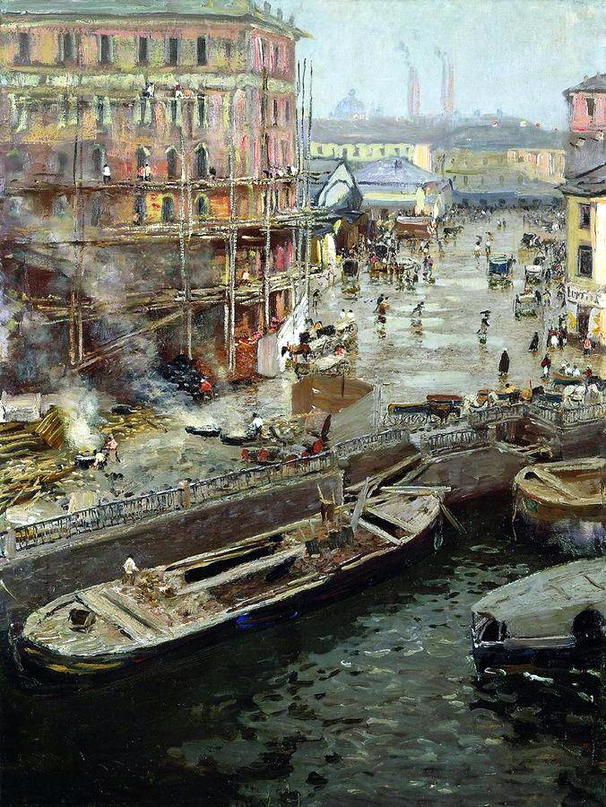 At the Catherine Canal in the summer. 1905. Oil on canvas. 84 x 67 cm. The State Russian Museum, St. Petersburg